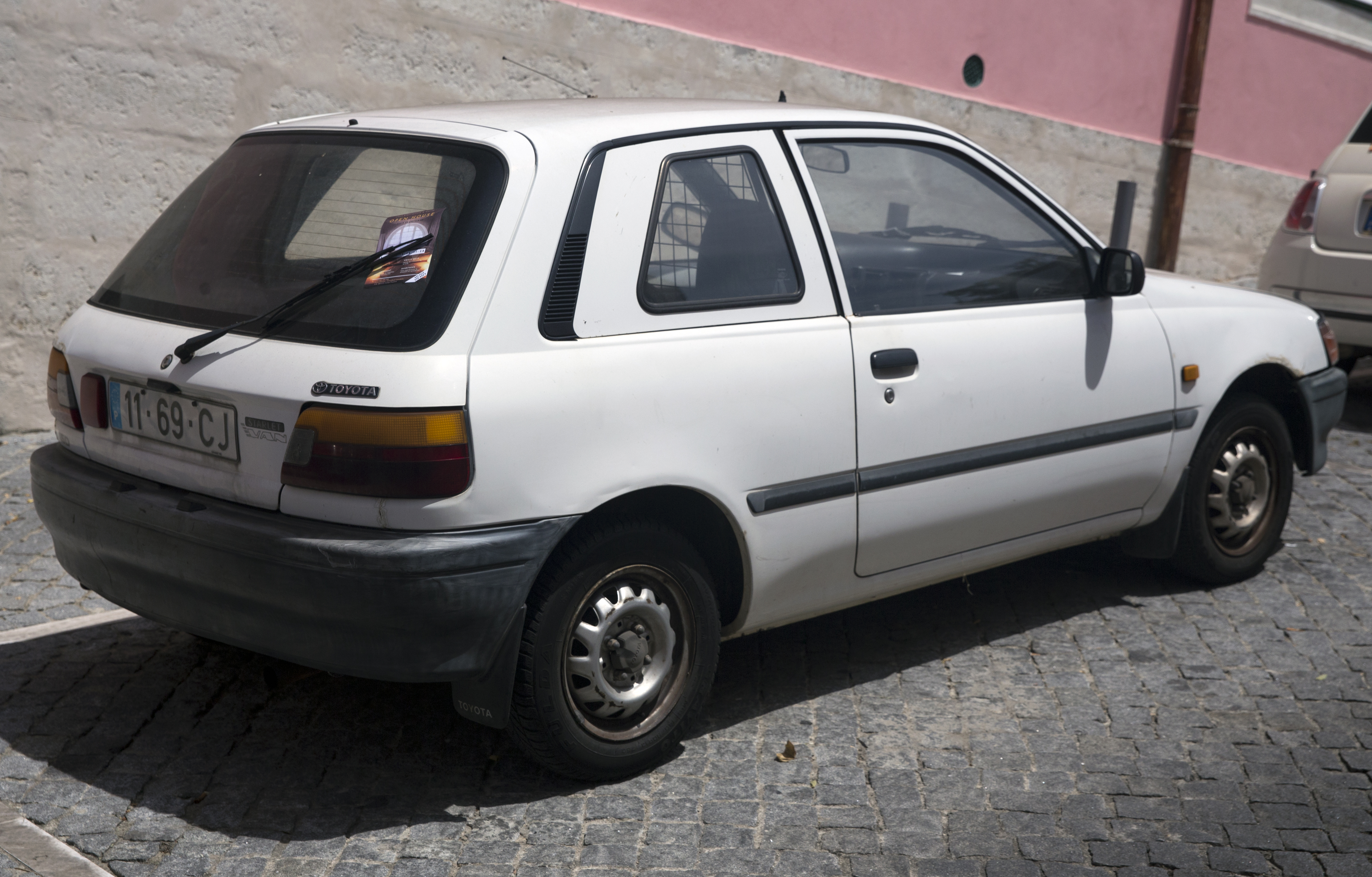 A 1993 Toyota Starlet 1.5D Van (NP80) in Lisbon, Portugal. The van suits some tax slot or other, but then the window blanks have had windows placed into them. Seems like needless contortions... Chassis no. JT152NP80-00025488, model NP80L-AGMRSW, built in February 1993.